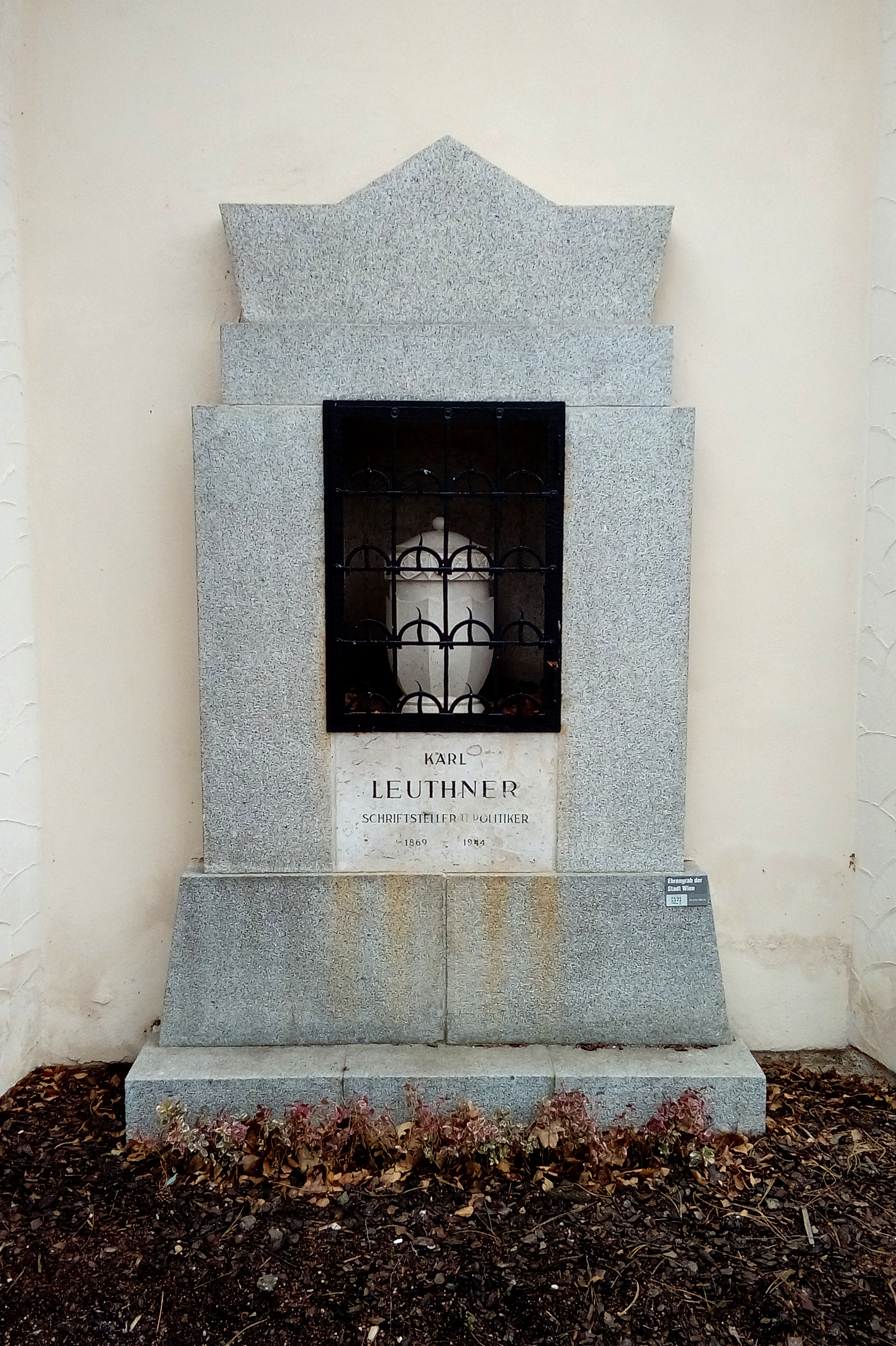 Urn grave of the journalist, writer and politician Karl Leuthner (1869–1944). Feuerhalle Simmering, Vienna